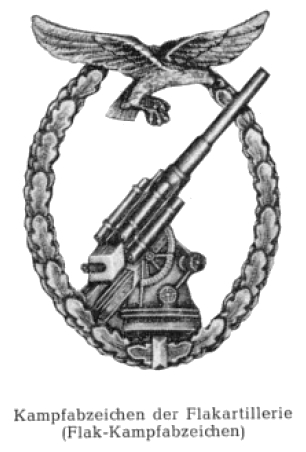 Flak-Kampfabzeichen in der 1957er Version Das Flak-Kampfabzeichen der Luftwaffe war ein Kampfabzeichen der deutschen Wehrmacht im Zweiten Weltkrieg und wurde am 10. Januar 1941 durch den Oberbefehlshaber der Luftwaffe Hermann Göring gestiftet. Es sollte die Erfolge der Flakartillerie der Luftwaffe sowohl bei der Abwehr von Luftangriffen als auch im Erdkampf würdigen.